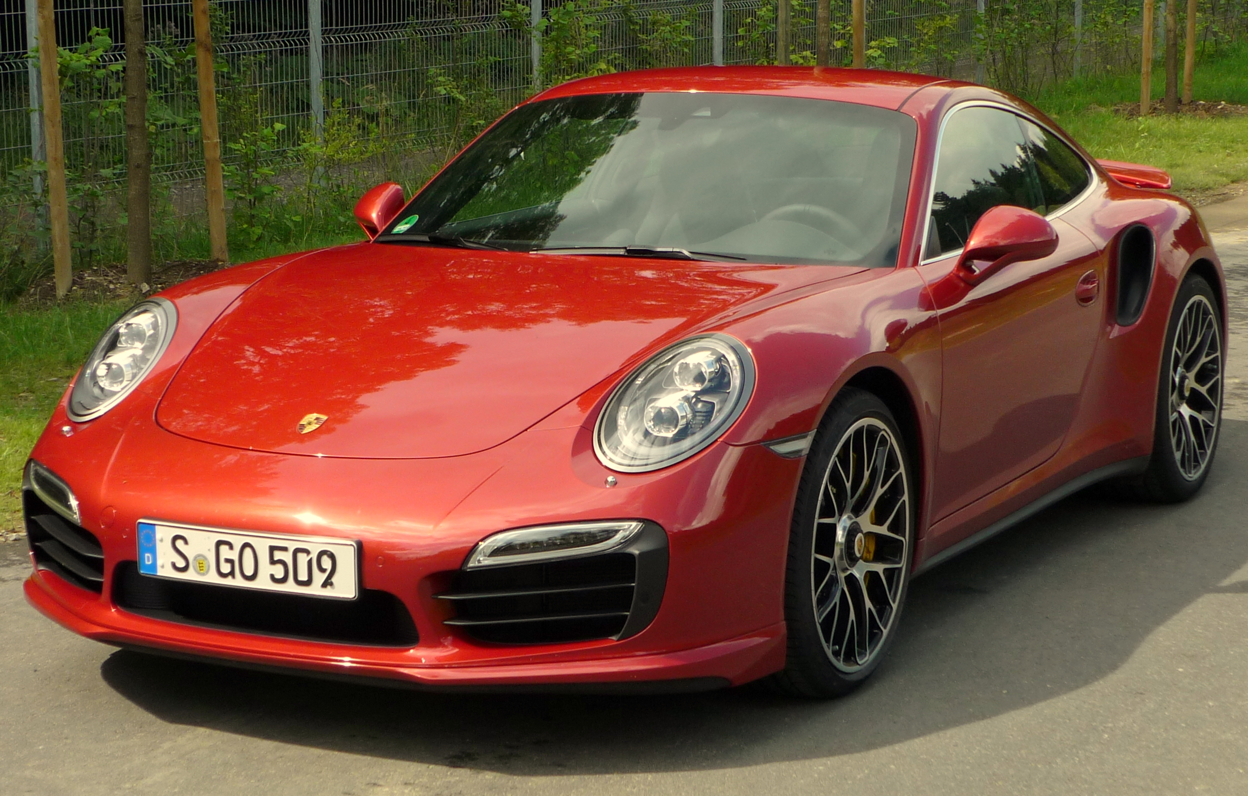 Porsche Turbo S (991) front view